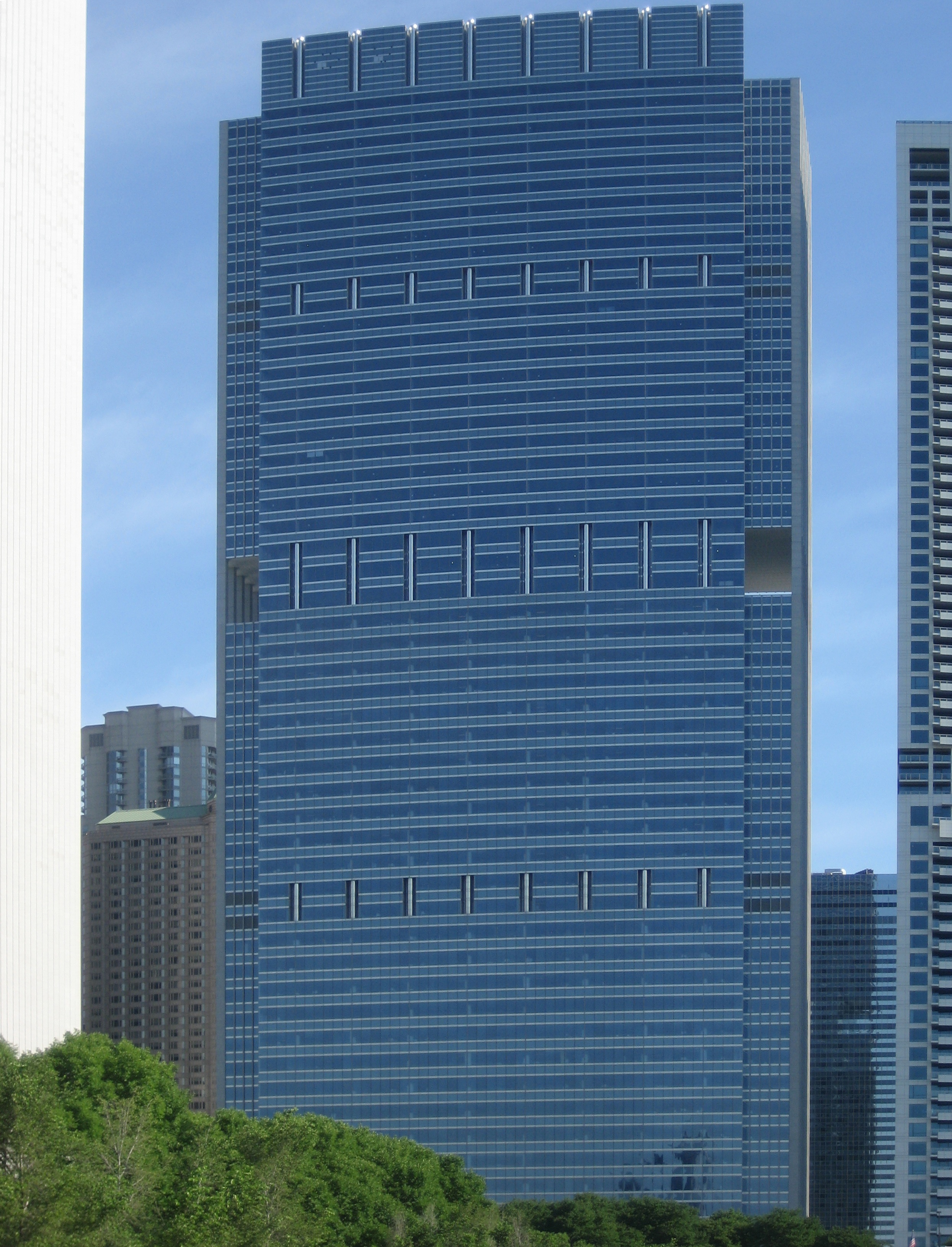 Picture of the completed Blue Cross Blue Shield Tower